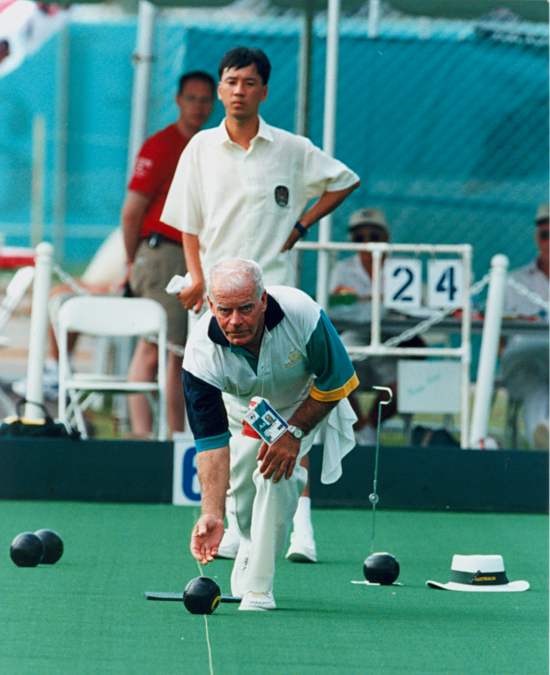 Australian paralympic lawn bowls competitor, John Forsberg, at the Atlanta 1996 Paralympic Games.